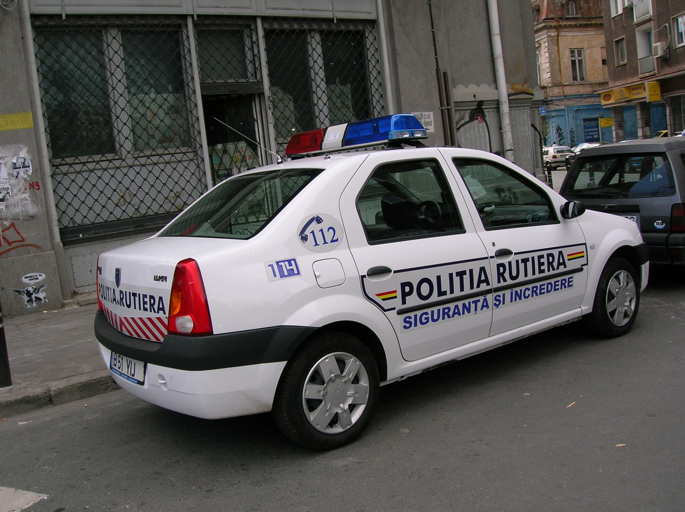 Dacia Logan. Police car in Bucharest (Romania)